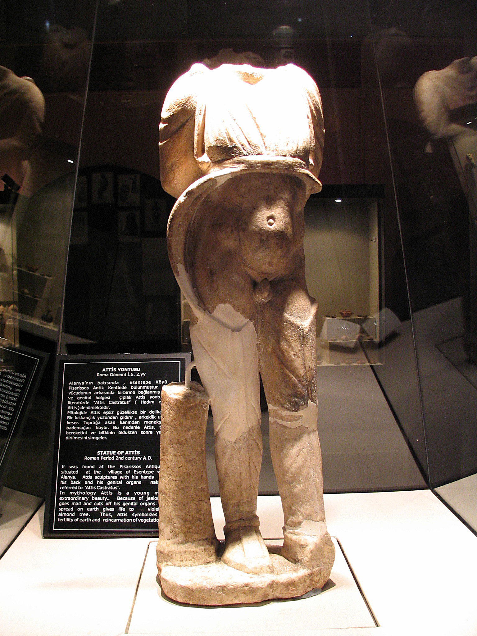 Attis, Archeological museum Alanya, Turkey.